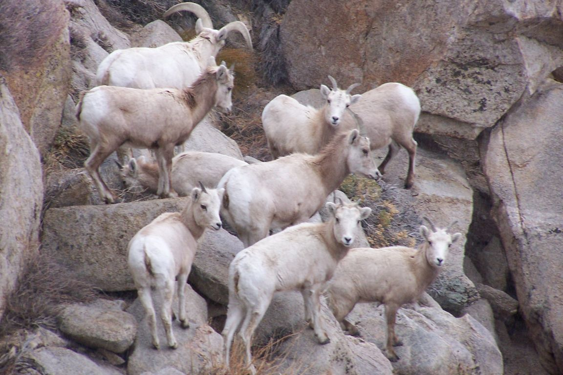 Sierra Nevada bighorn sheep: ewes and lambs on Wheeler Crest